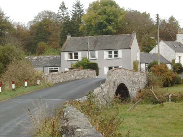 Bridge in Kirkgunzeon